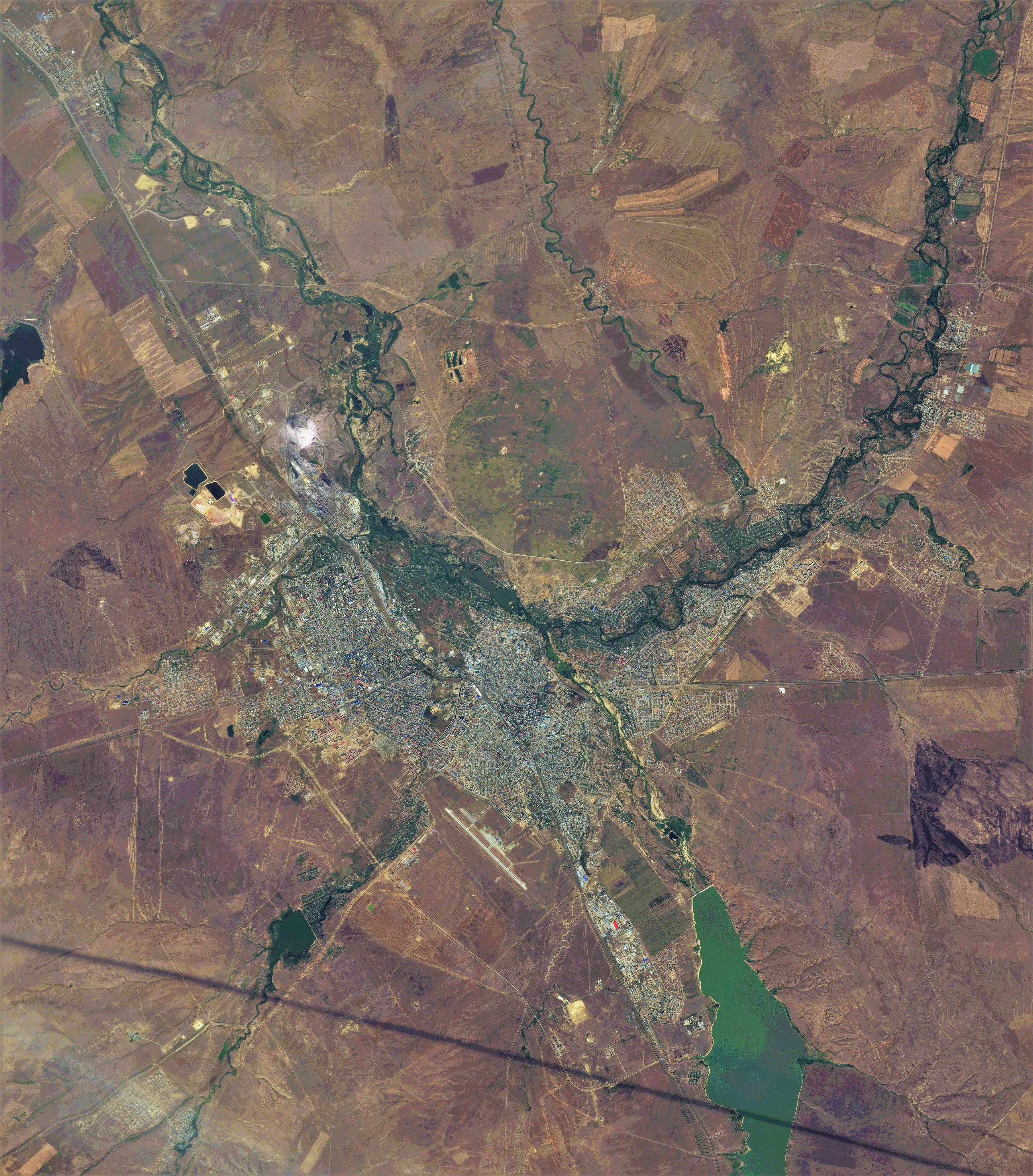 Western Kazakhstan city Aktobe and vicinities, satellite image of ESA Sentinel-2, spatial resolution 10 m, near natural colors